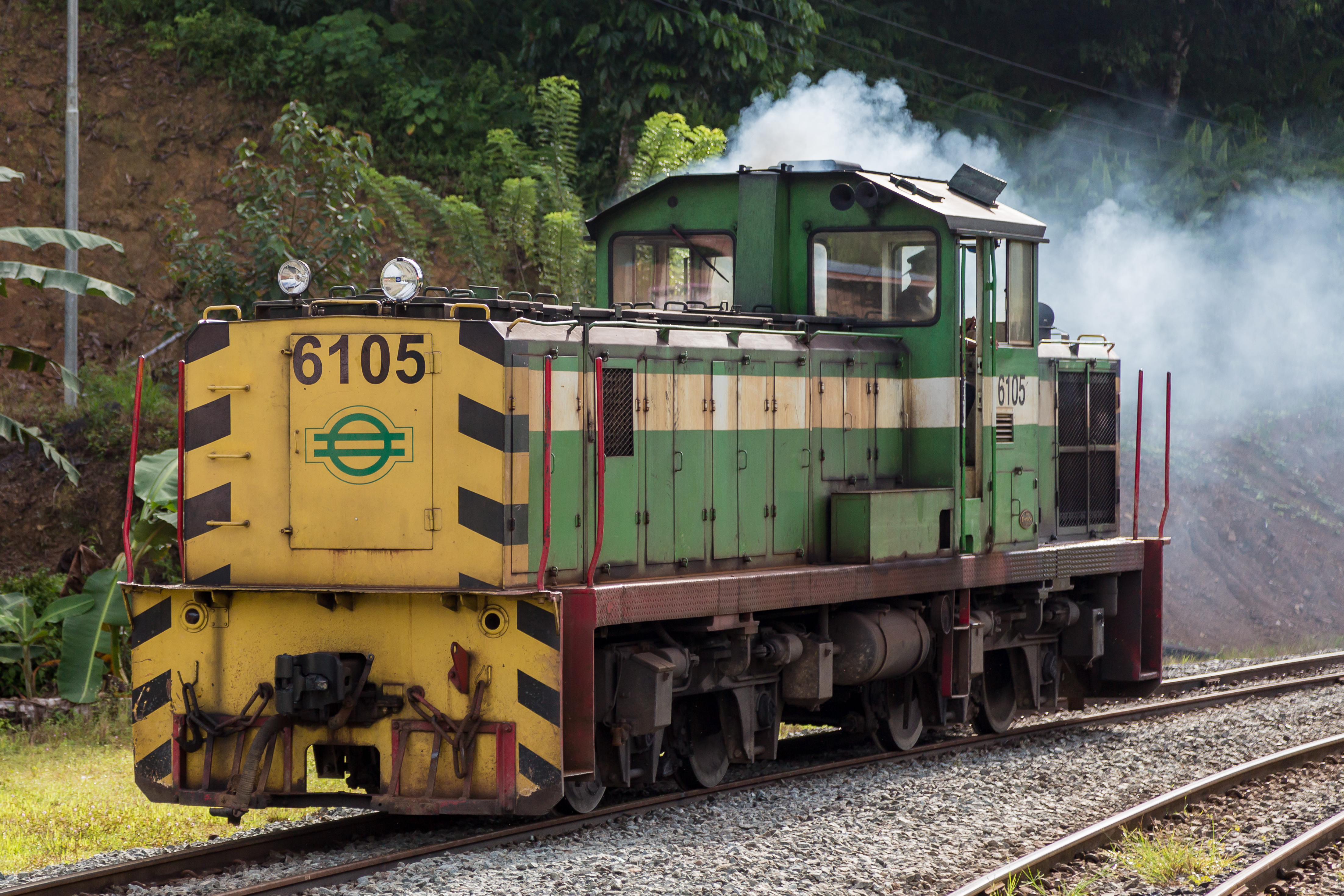 Saliwangan, Sabah: Diesel lokomotive 6105 of Sabah State Railway.